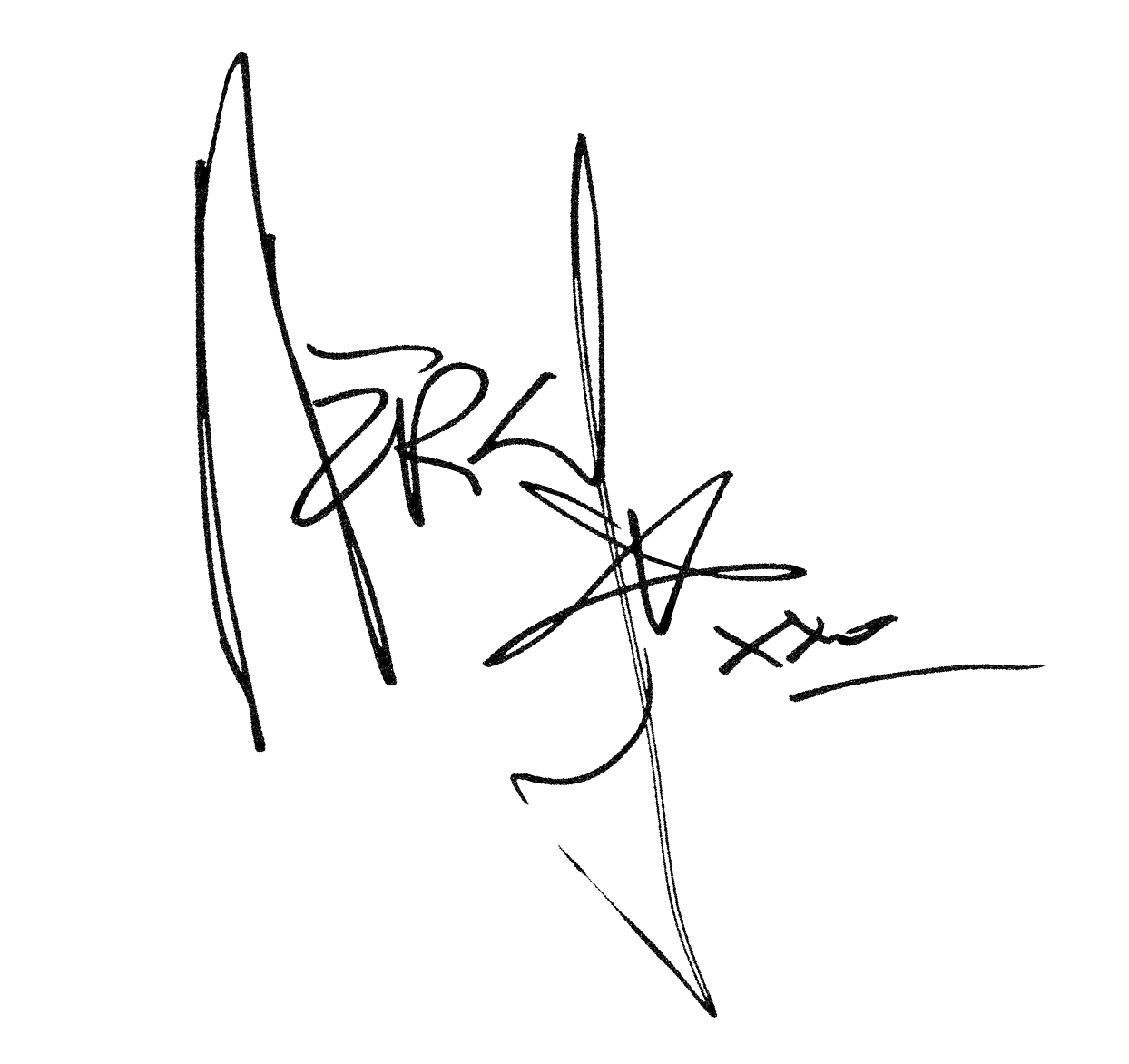 Adam Nergal Darski Signature